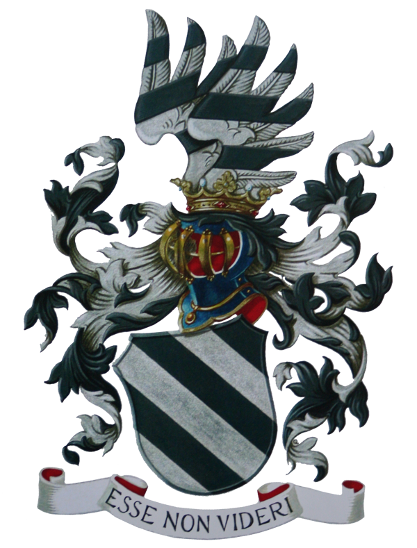 Arms of the Van Helsdingen family